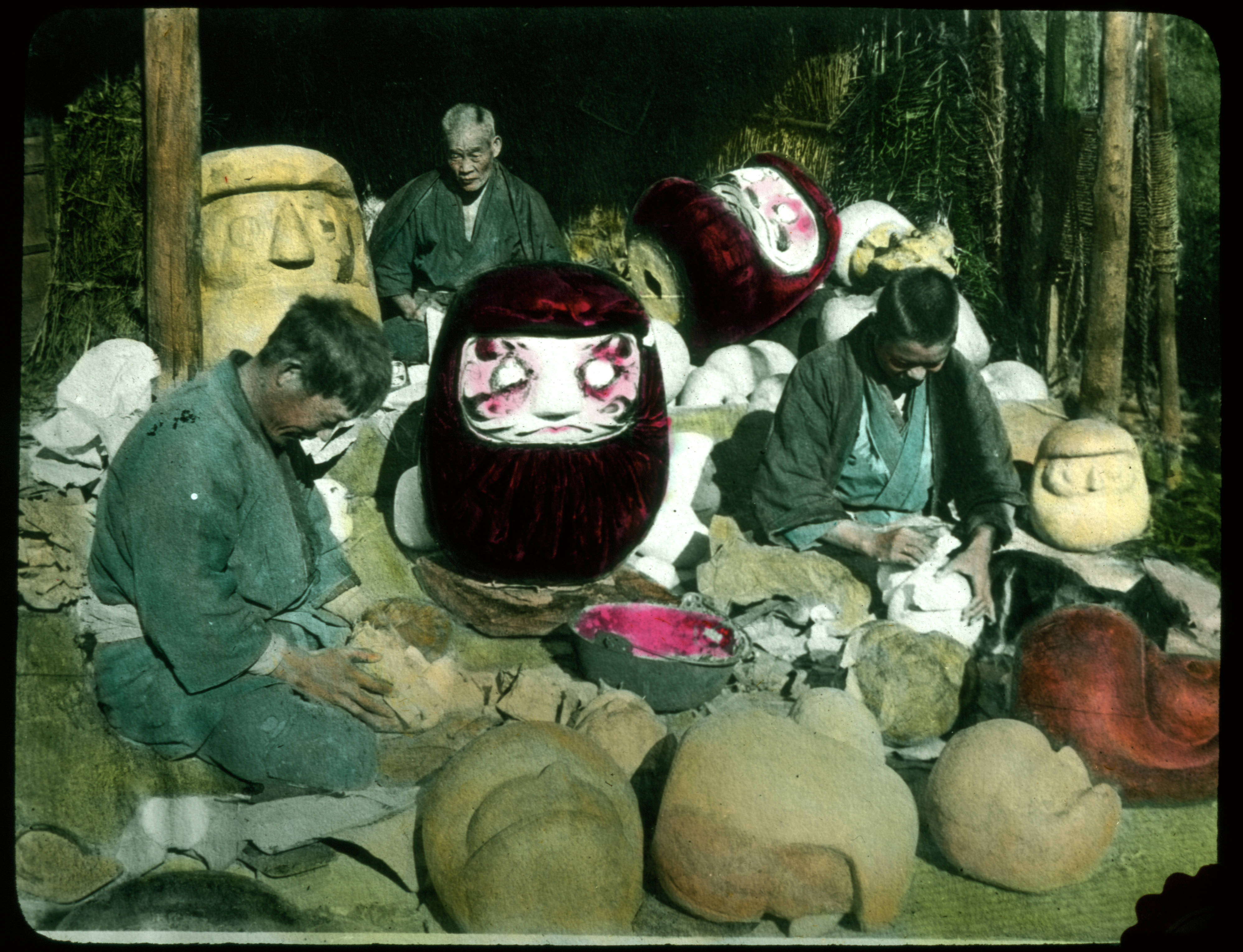 Item is a photographic glass-plate transparency; part of a set of colour-tinted transparencies depicting life in Japan ca. 1910, including scenery, street scenes, workers, farming, fishing, silk production, stone carvers, wood carvers, metal workers, potters, and artists.